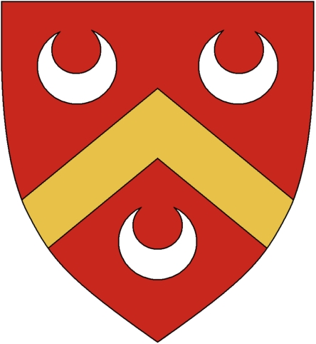 Small Coat of Arms of Vojinovic/Altomanovic Dynasty